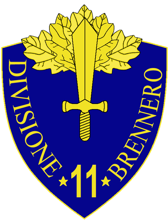 11a Divisione Fanteria Brennero insignia, Regio Esercito, Italy, WWII